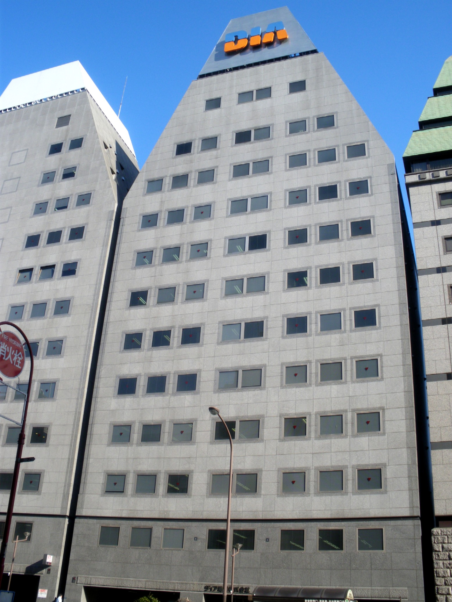 photo of DIA KENSETSU(construction）head office,Shinjuku,Shinjuku-ku,Tokyo,Jspan.